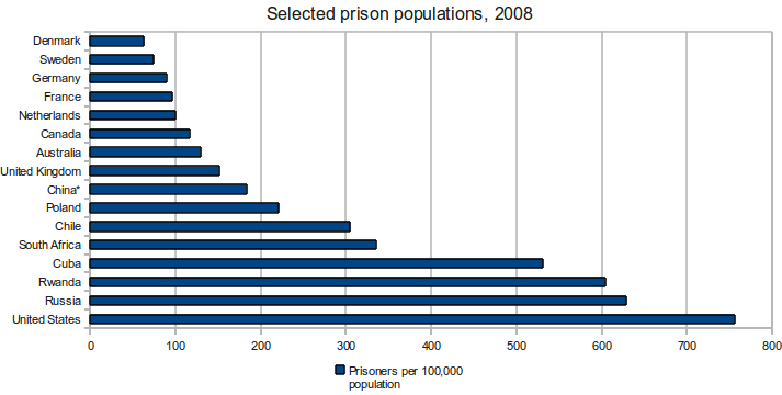 Chart showing prison population in selected countries of the world per 100,000 population Data taken from World Prison Population List (eighth edition) by Roy Walmsley International Centre for Prison Studies, King's College, London, 2012 Value for China includes 850,000 held in administrative custody